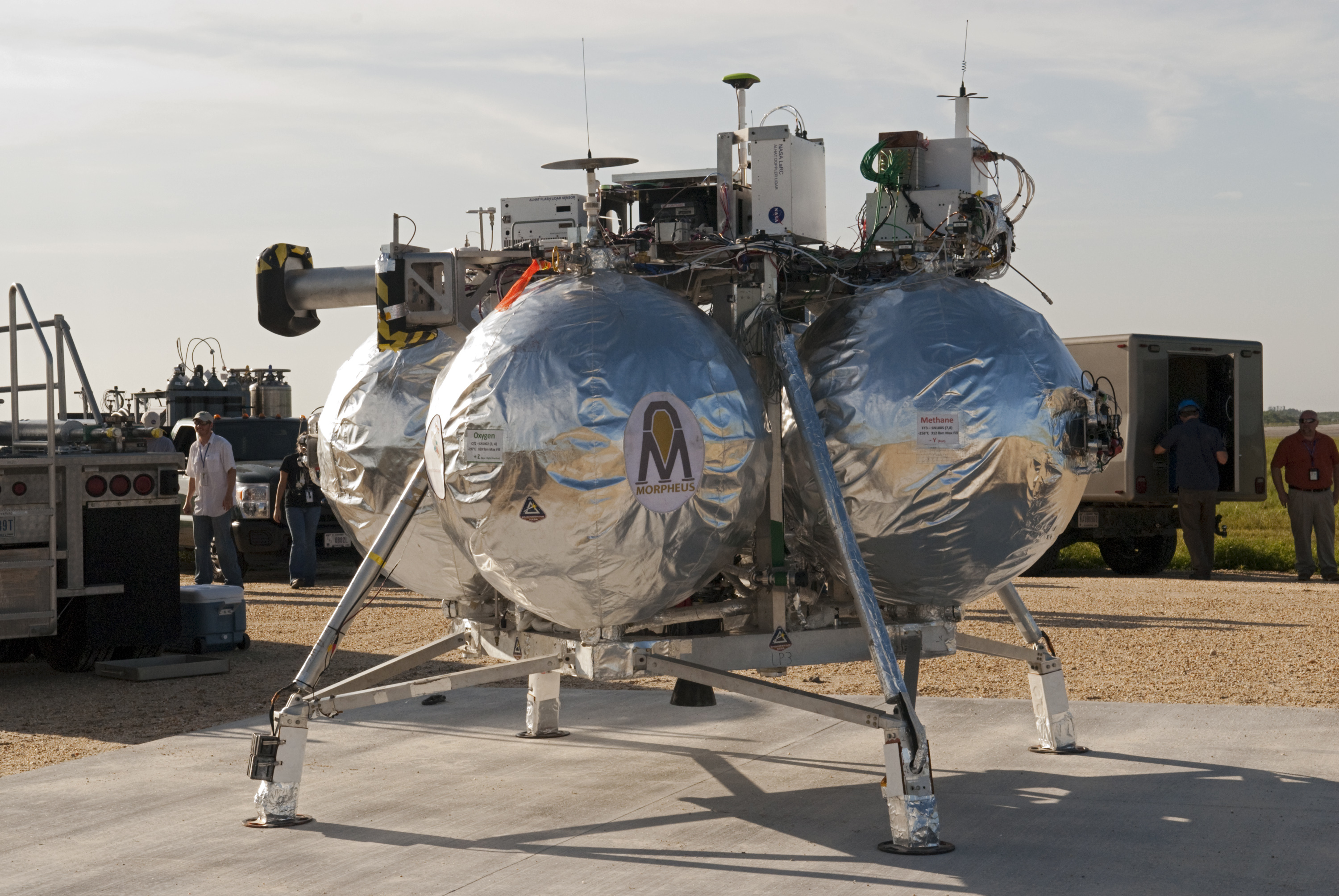 NASA's Morpheus lander, a vertical test bed vehicle, has been set up at its launch position along the runway at the Shuttle Landing Facility, or SLF, at the Kennedy Space Center in Florida. Morpheus is designed to demonstrate new green propellant propulsion systems and autonomous landing and an Autonomous Landing and Hazard Avoidance Technology, or ALHAT, system. Checkout of the prototype lander has been ongoing at NASA’s Johnson Space Center in Houston in preparation for its first free flight. The SLF site will provide the lander with the kind of field necessary for realistic testing. Project Morpheus is one of 20 small projects comprising the Advanced Exploration Systems, or AES, program in NASA’s Human Exploration and Operations Mission Directorate. AES projects pioneer new approaches for rapidly developing prototype systems, demonstrating key capabilities and validating operational concepts for future human missions beyond Earth orbit.